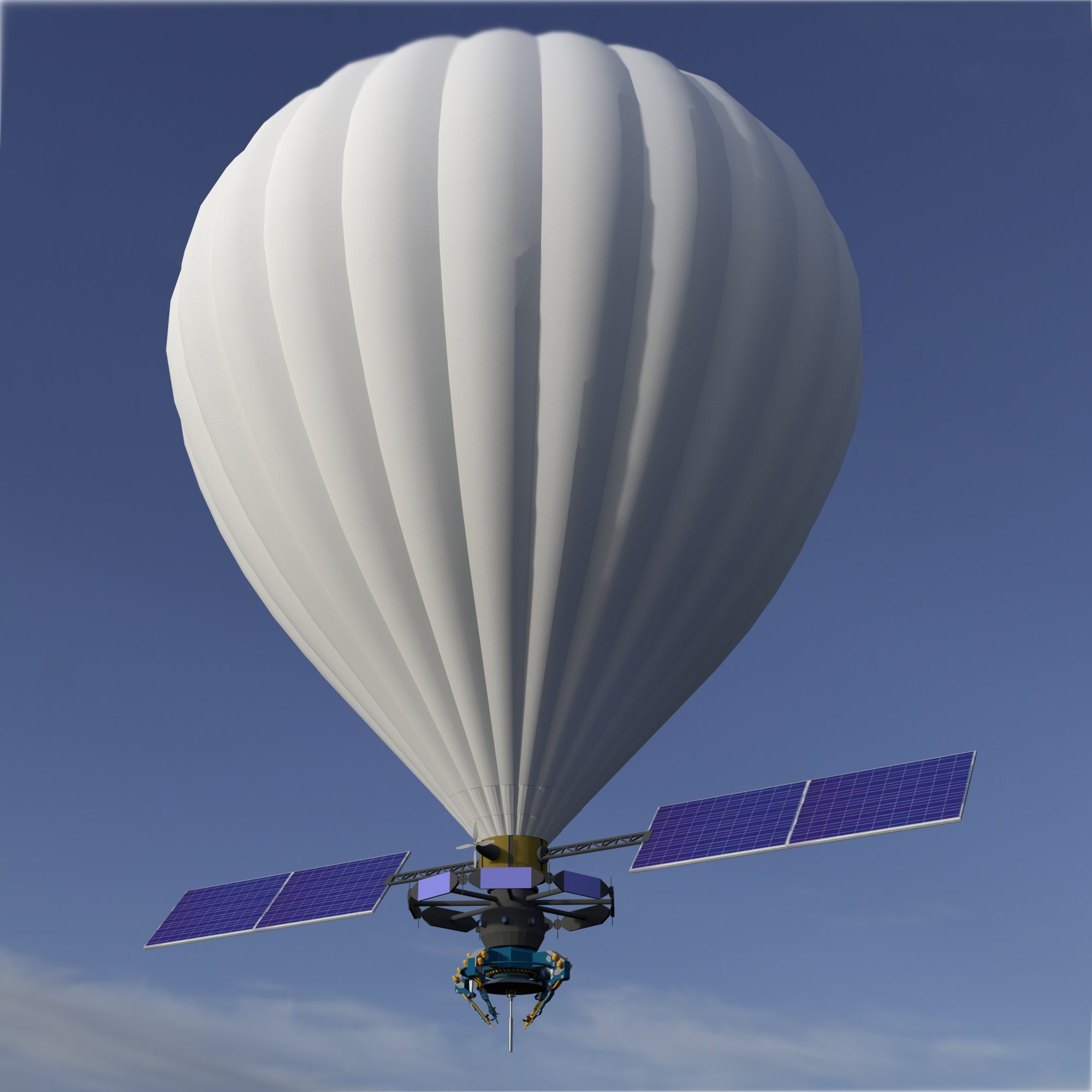 The Geostationary Balloon Satellite floats at about 65,000 feet and receives data from parabolic antenna base station. It rains down cellular data and and can capture aerial video and imagery.